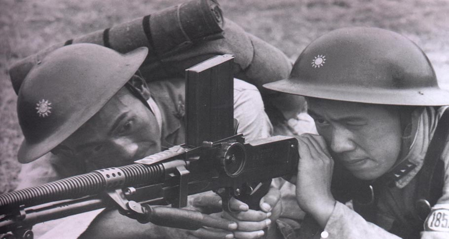 NRA machine-gunners from 185th Division, using Czech Brno ZB26